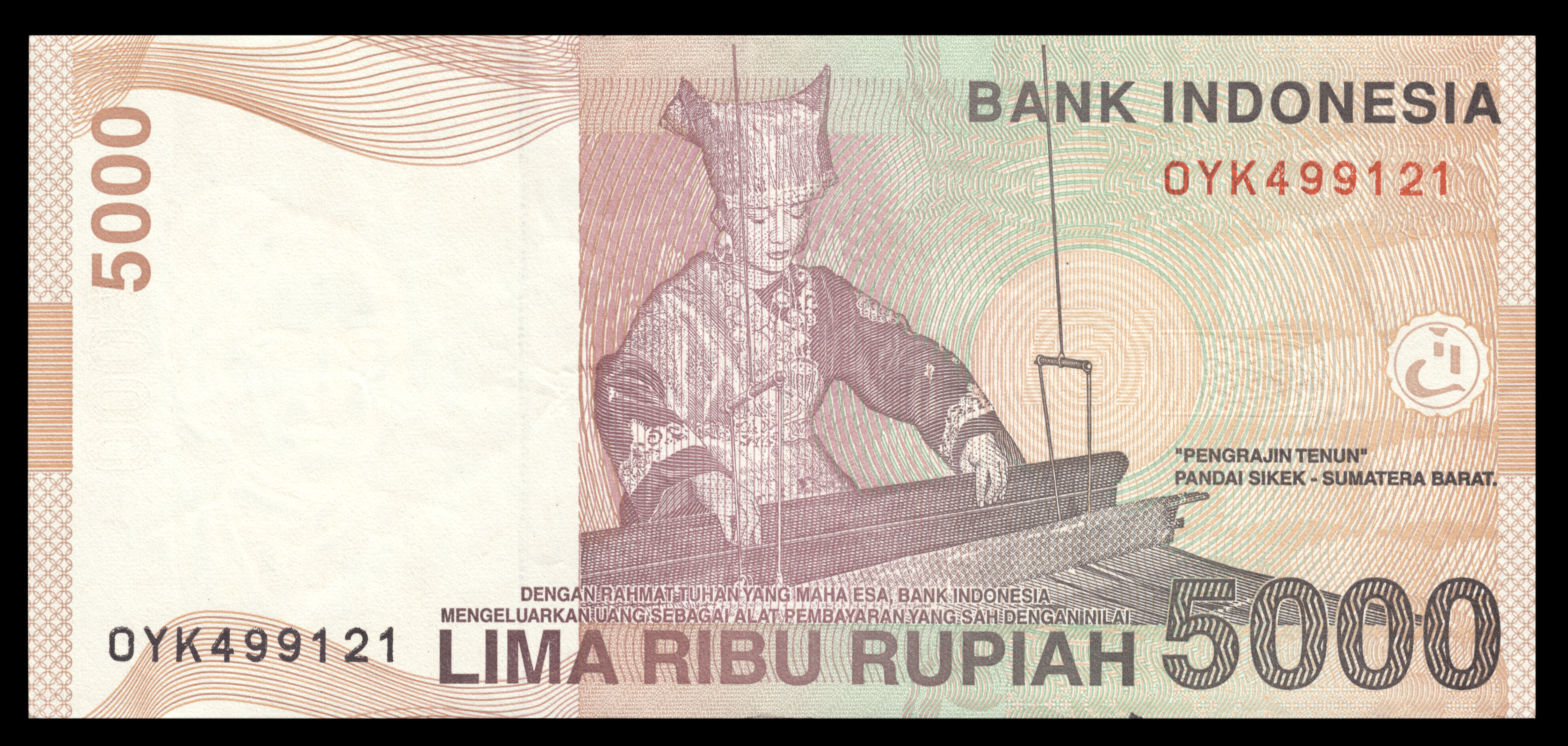 5000 rupiah bill, 2001 series (2009 date), processed, reverse